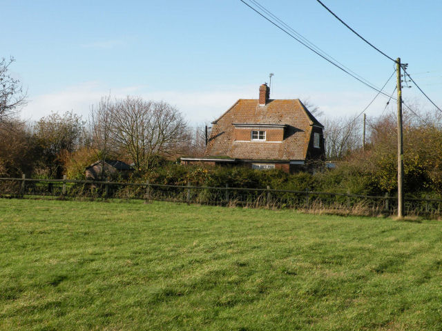 Cottage on South Road. Identical in aspect to the ivy-strangled 1596980, this was presumably a Land Settlement Association standard design.